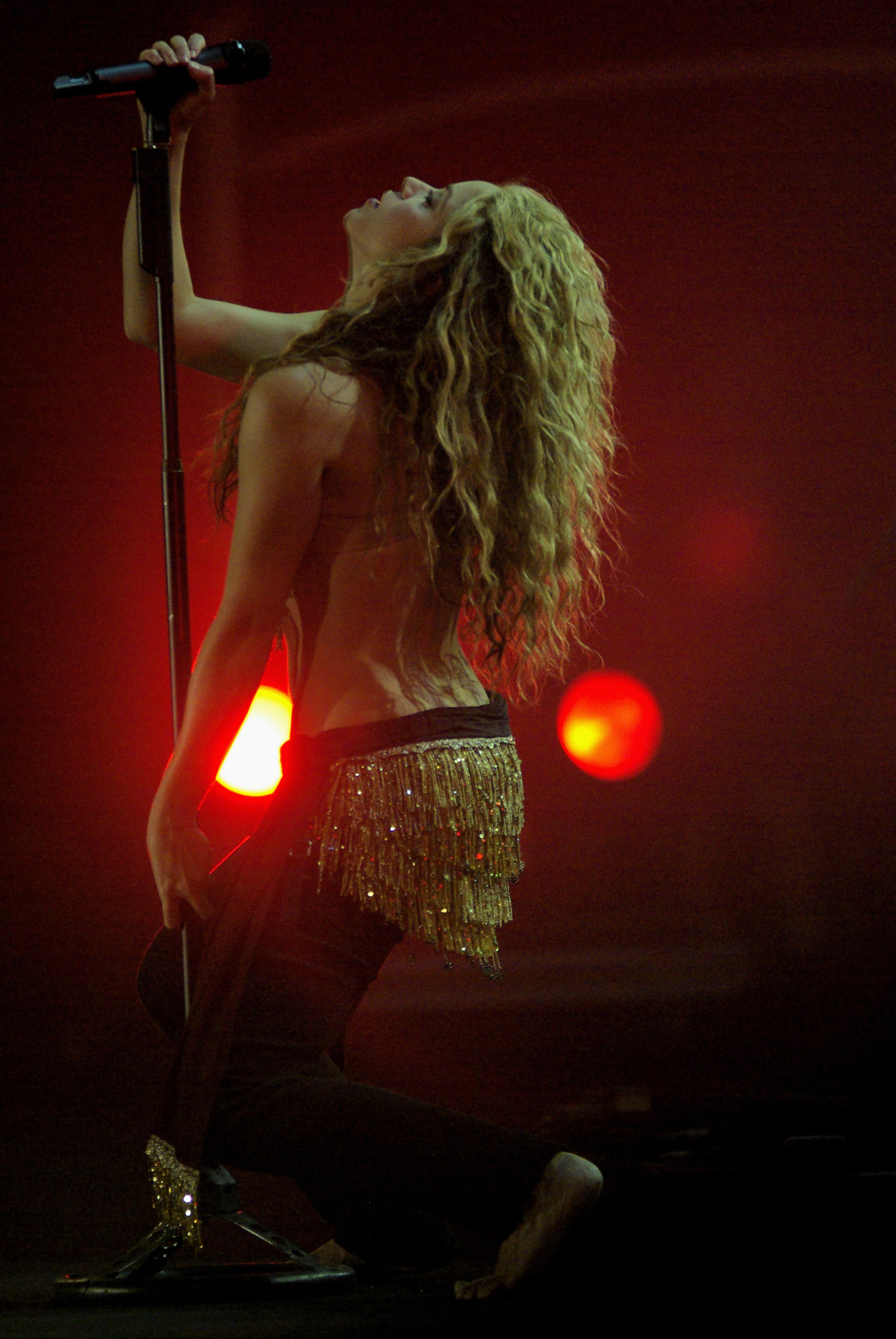 Shakira performing at the Rock in Rio concert in 2008.